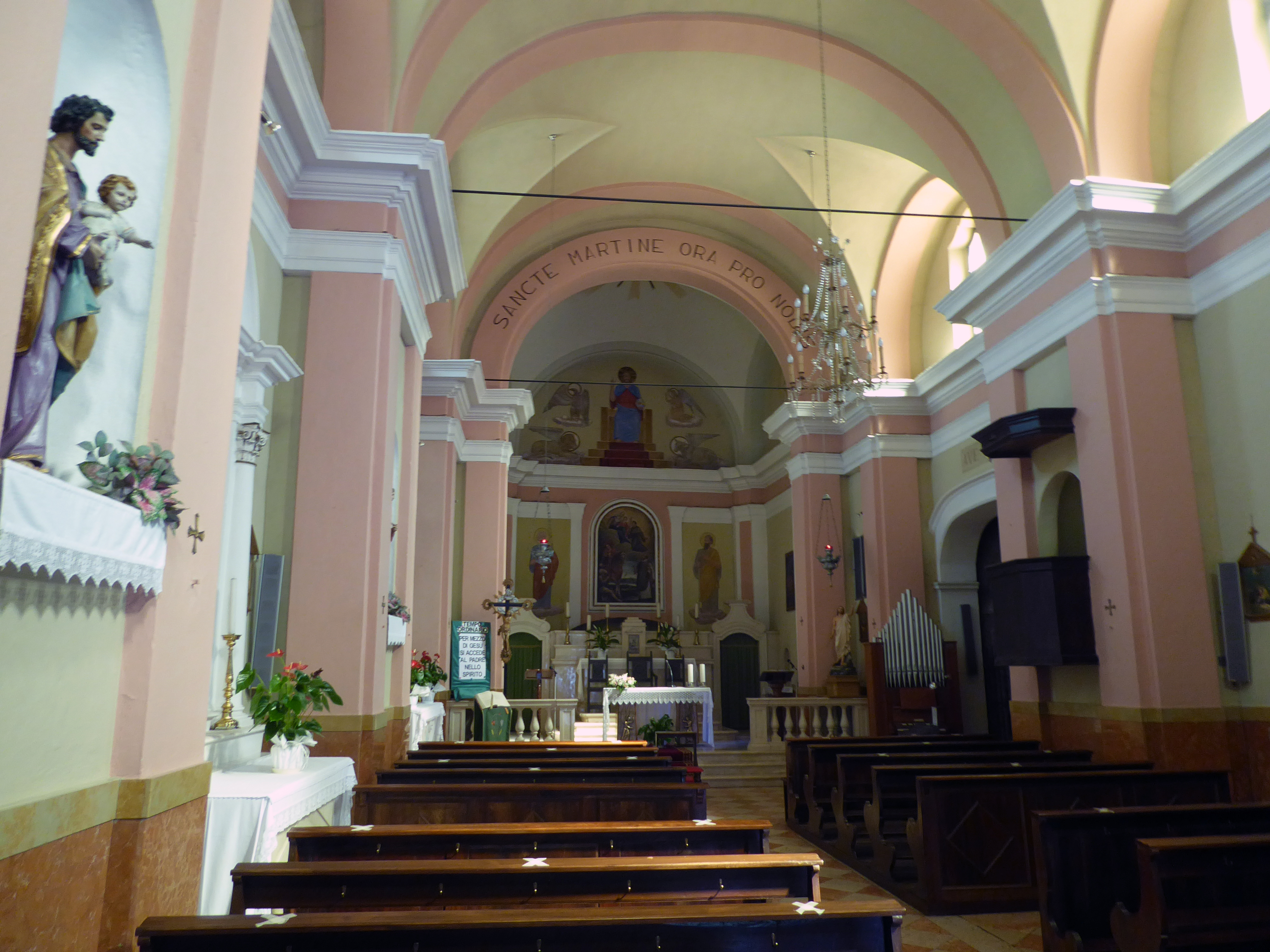 Lenzima (Isera, Trentino, Italy), Saint Martin church - Interior